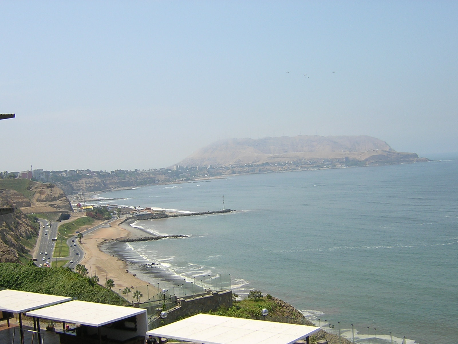 Miraflores, Lima Perù in 2007